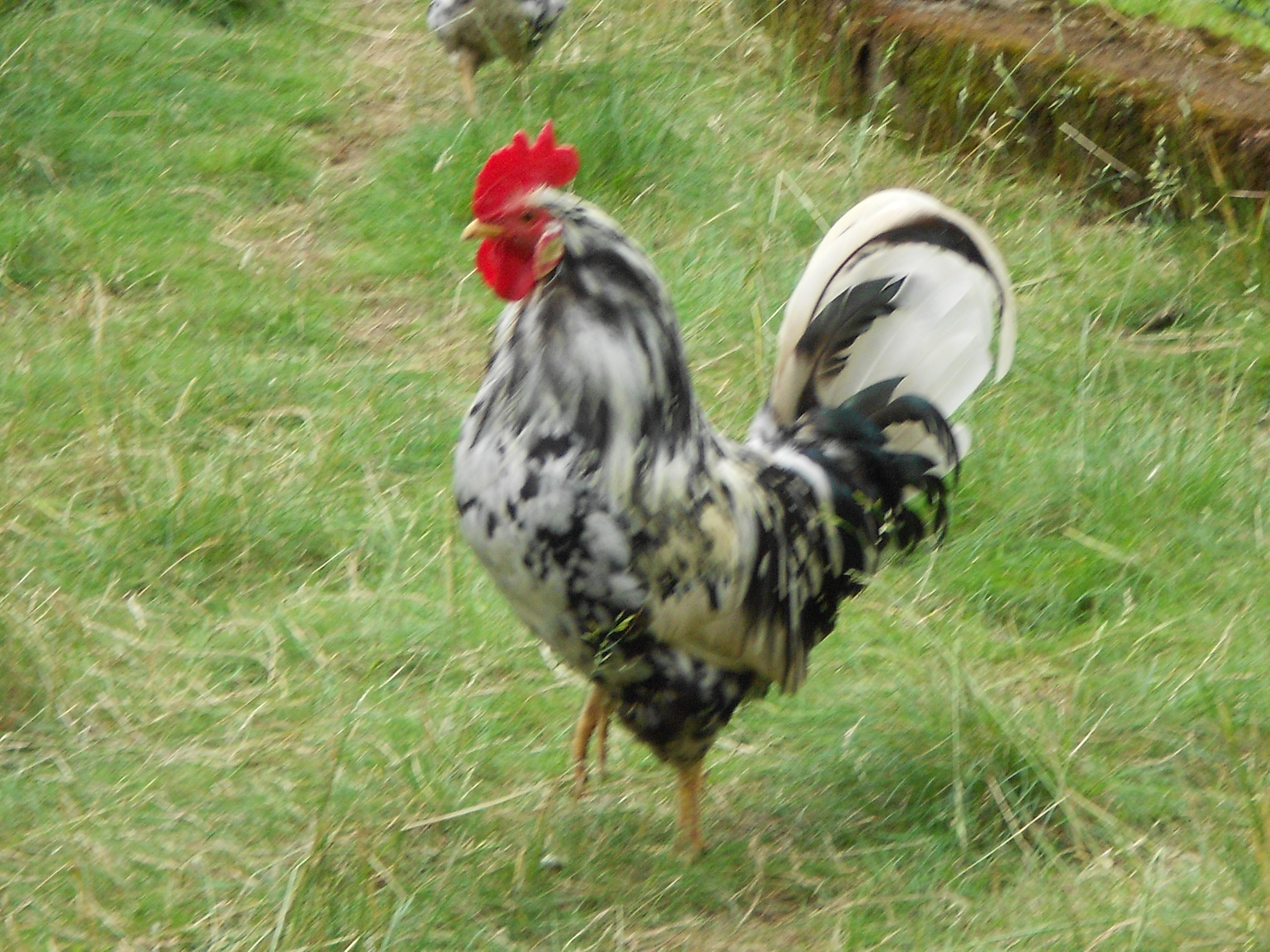 Orusthöna (male)